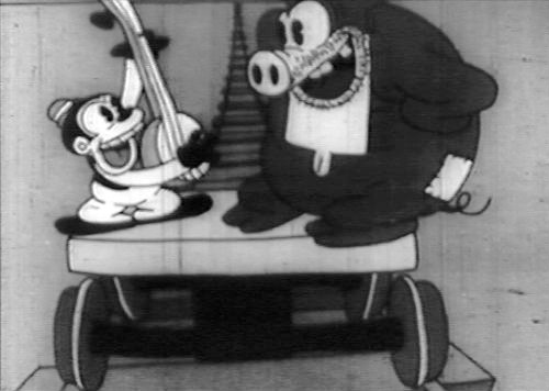 Scene from the 1930 cartoon Box Car Blues. When the boxcar comes apart, Bosko and his friend the pig, who has now come to, are both thrown onto a small railroad cart. After they avoid being hit by the debris thanks to the pig's umbrella, they set off on their journey again. Bosko is now playing the banjo as they both sing. (The end)